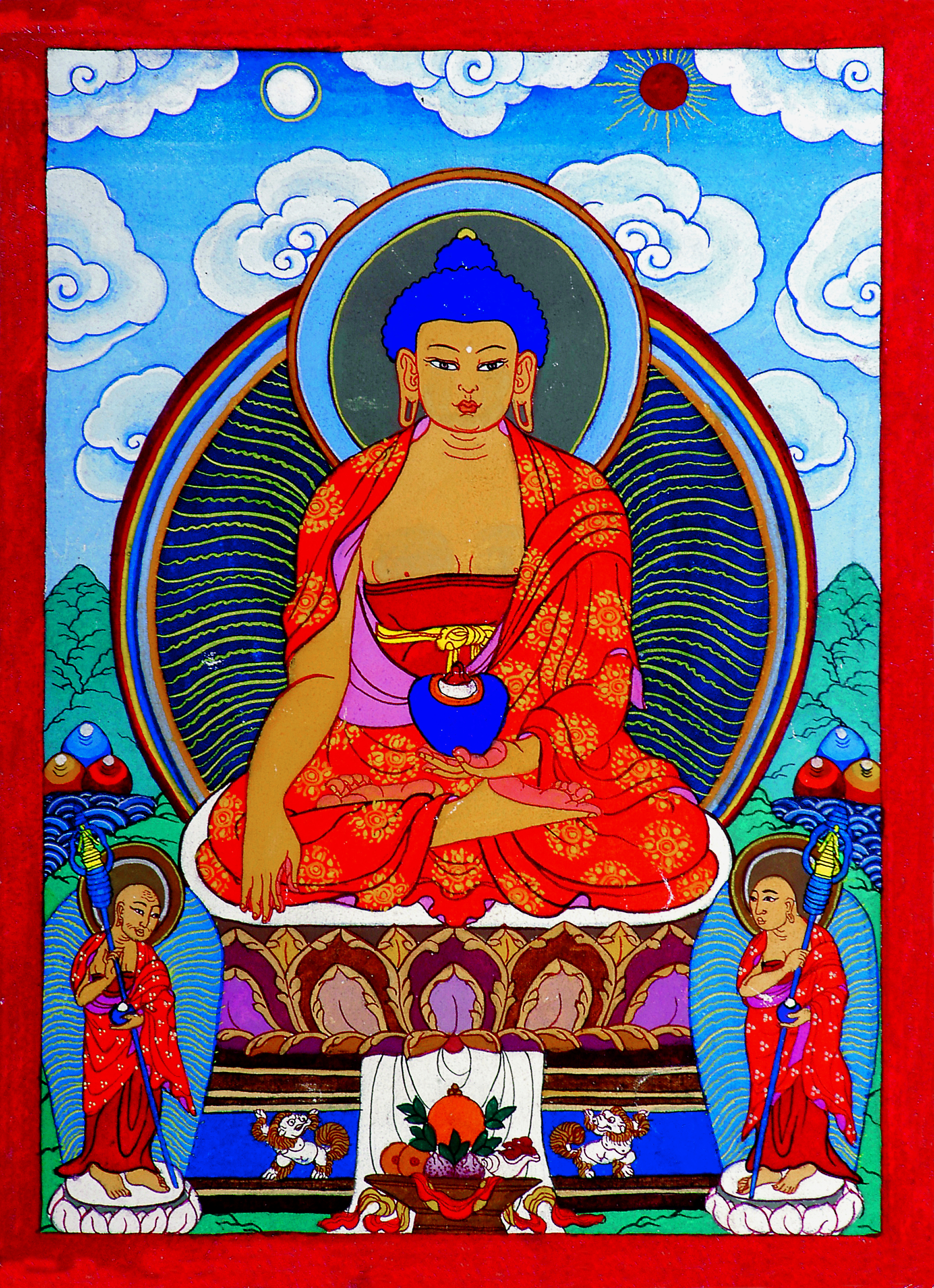 Buddha (thangka painting), Tempera on cotton, 19 x 26 cm, Year 2004, Otgonbayar Ershuu